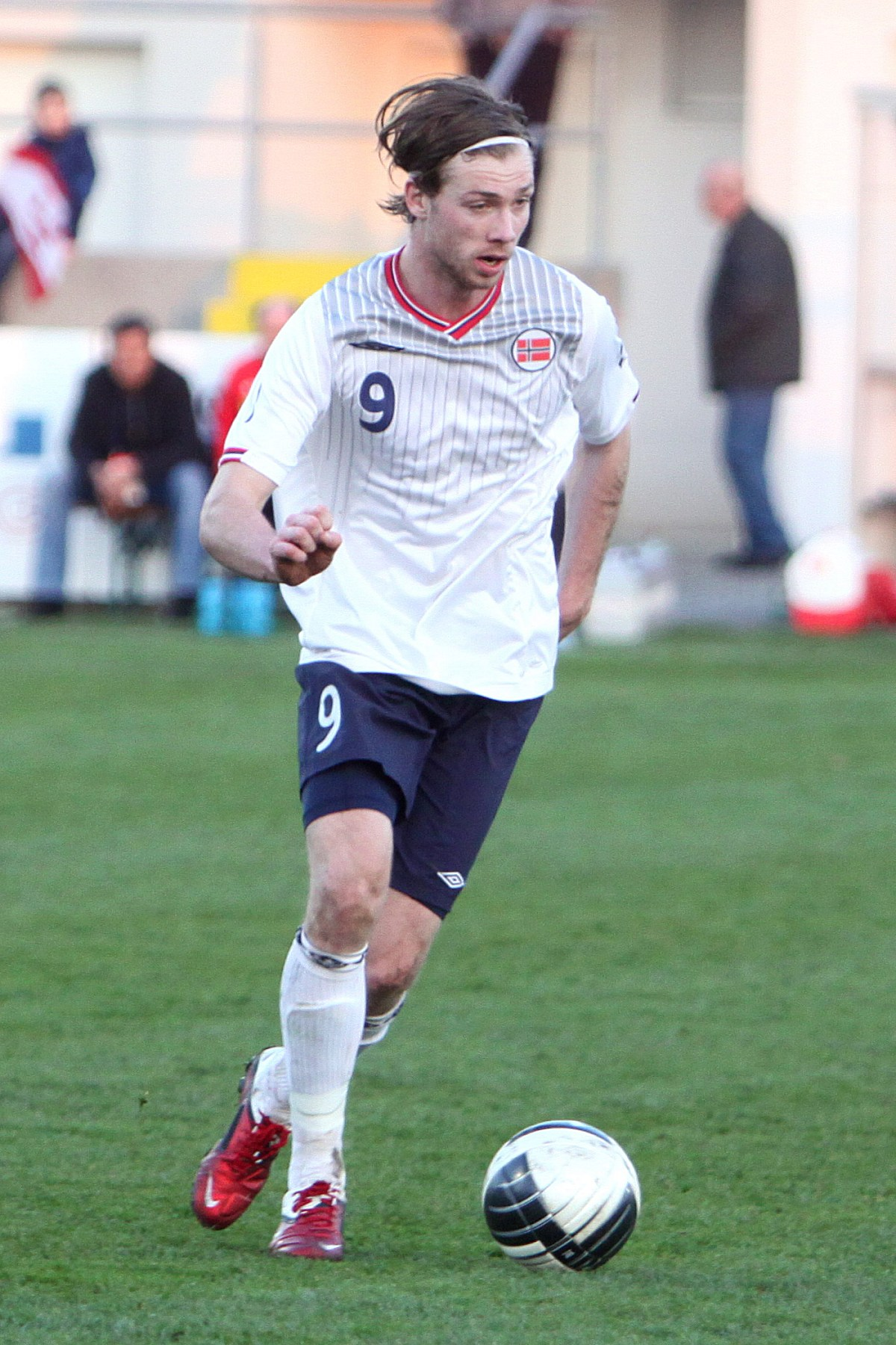 Jo Inge Berget (Strømsgodset IF) in the Norway national under-21 football team, 2011-03-29